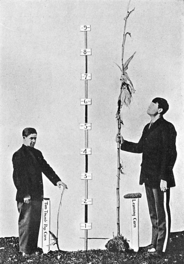 Fig. 76. A short and a tall boy each holding a stalk of corn—one stalk of a race of short corn, the other of tall corn. (After Blakeslee.)